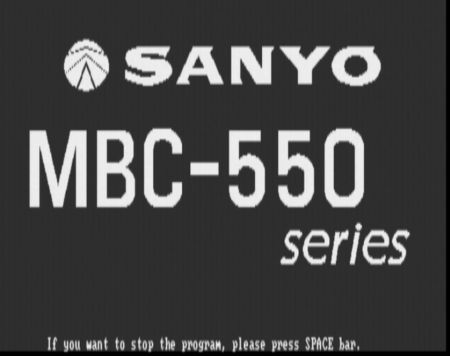 Screengrab of the the Sanyo MBC-550 demo.bas program. It took the machine around 1 minute to draw this image.